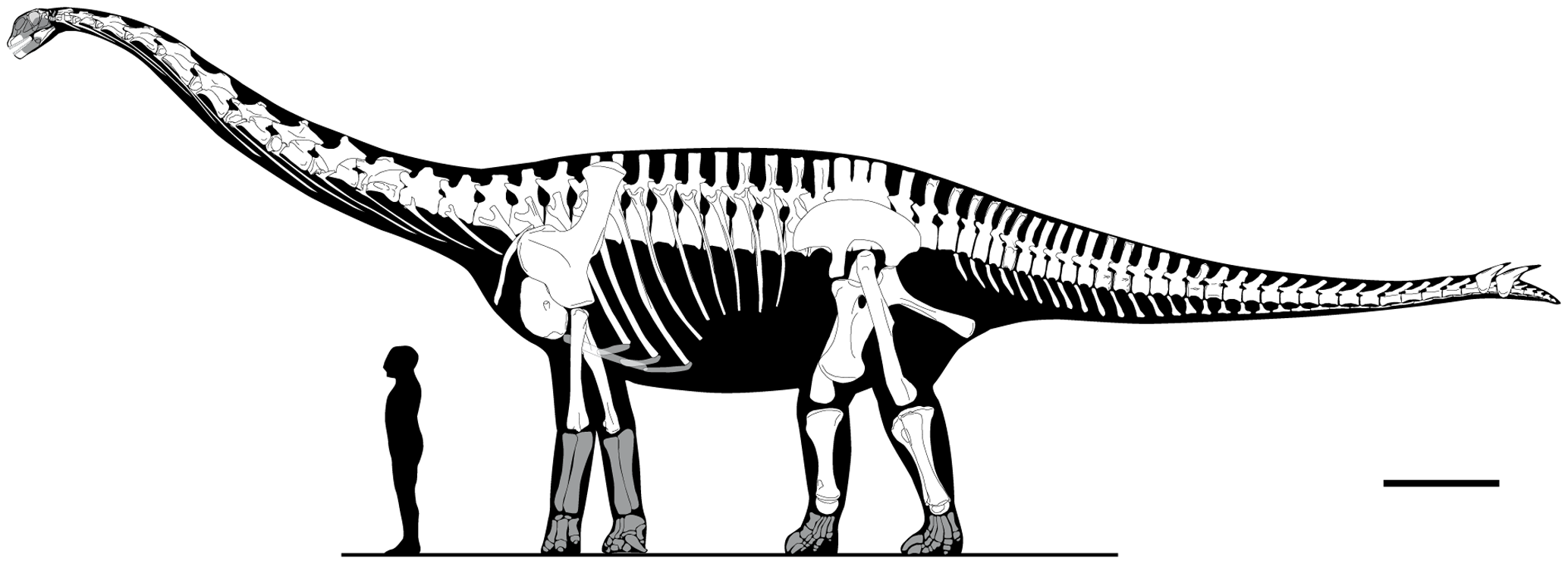 Skeletal reconstruction of Spinophorosaurus nigerensis. Dimensions are based on GCP-CV-4229/NMB-1699-R, elements that are not represented are shaded. Scale bar = 1 m.